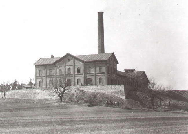 Kukla Mine, Oslavany, Czech Republic